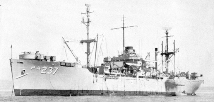 The U.S. navy attack transport USS Bexar (APA-237) at anchor, circa in the 1960s.